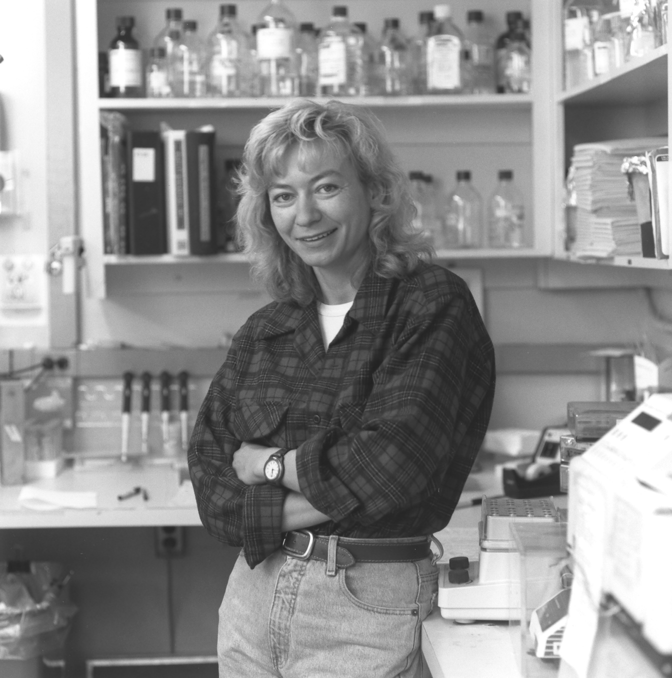 Title Muegge, Kathrin Description Senior Investigator, Head, Epigenetics Section, Laboratory of Cancer Prevention, Center for Cancer Research, National Cancer Institute. Topics/Categories National Cancer Institute, People Type B&W, Photo Source National Cancer Institute